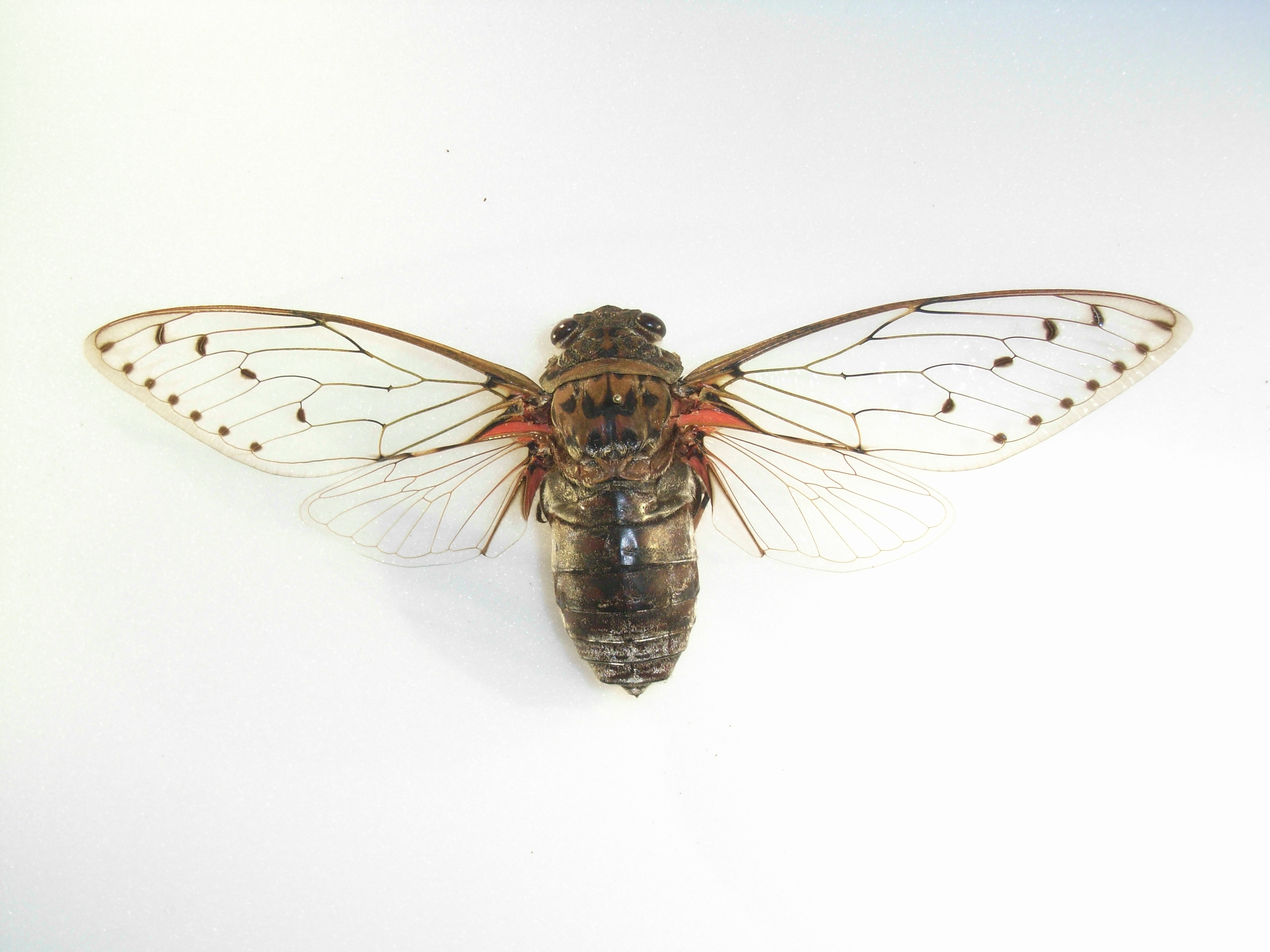 Pomponia imperatoria Giant Cicada Ex coll. Felix Stumpe